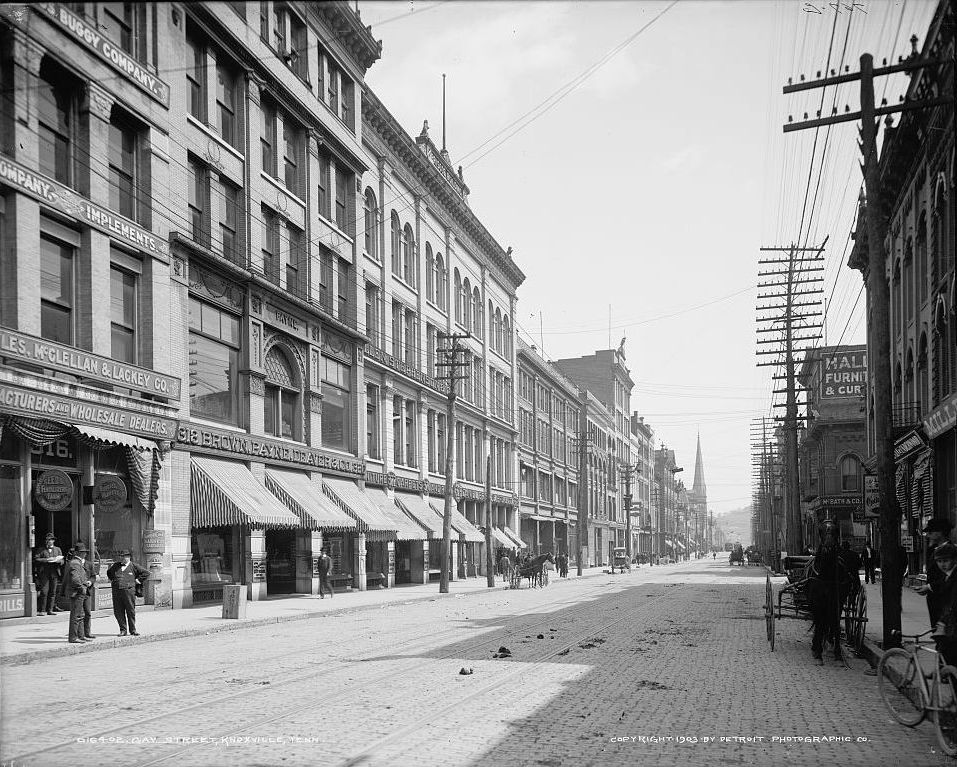 Gay Street in Knoxville, Tennessee, USA, photographed in the early 1900s. This view is south from near the Summit Hill Drive intersection. The 318 Gay Street headquarters of Brown, Payne, Deavers and Company, a late-19th and early-20th century dry goods wholesaing firm, is visible on the left. The steeple of the First Baptist Church (now located on Main) is visible in the distance.